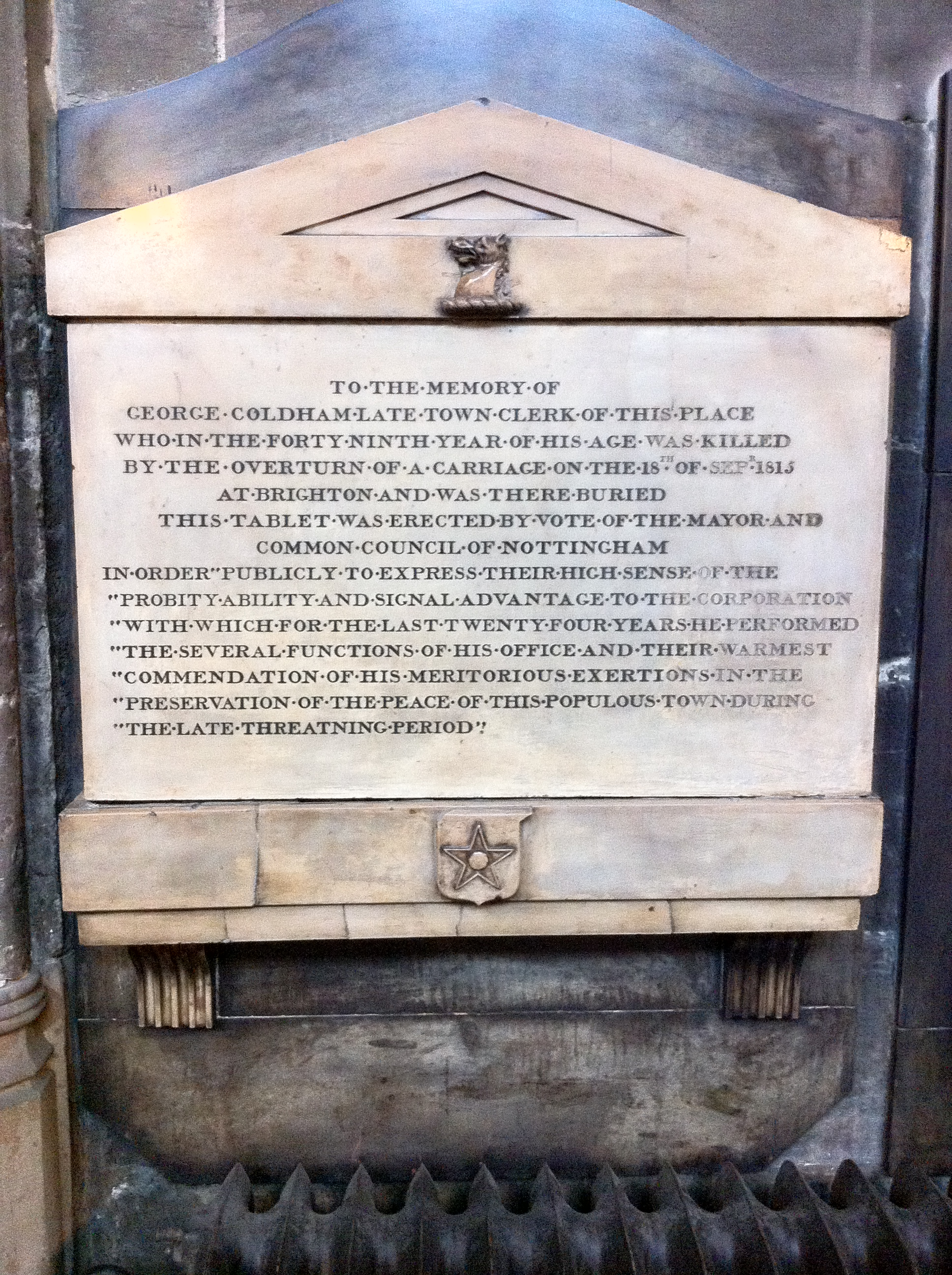 Memorial to George Coldham in St Mary's Church, Nottingham. He died on 18 September 1815 in a carriage accident in Brighton